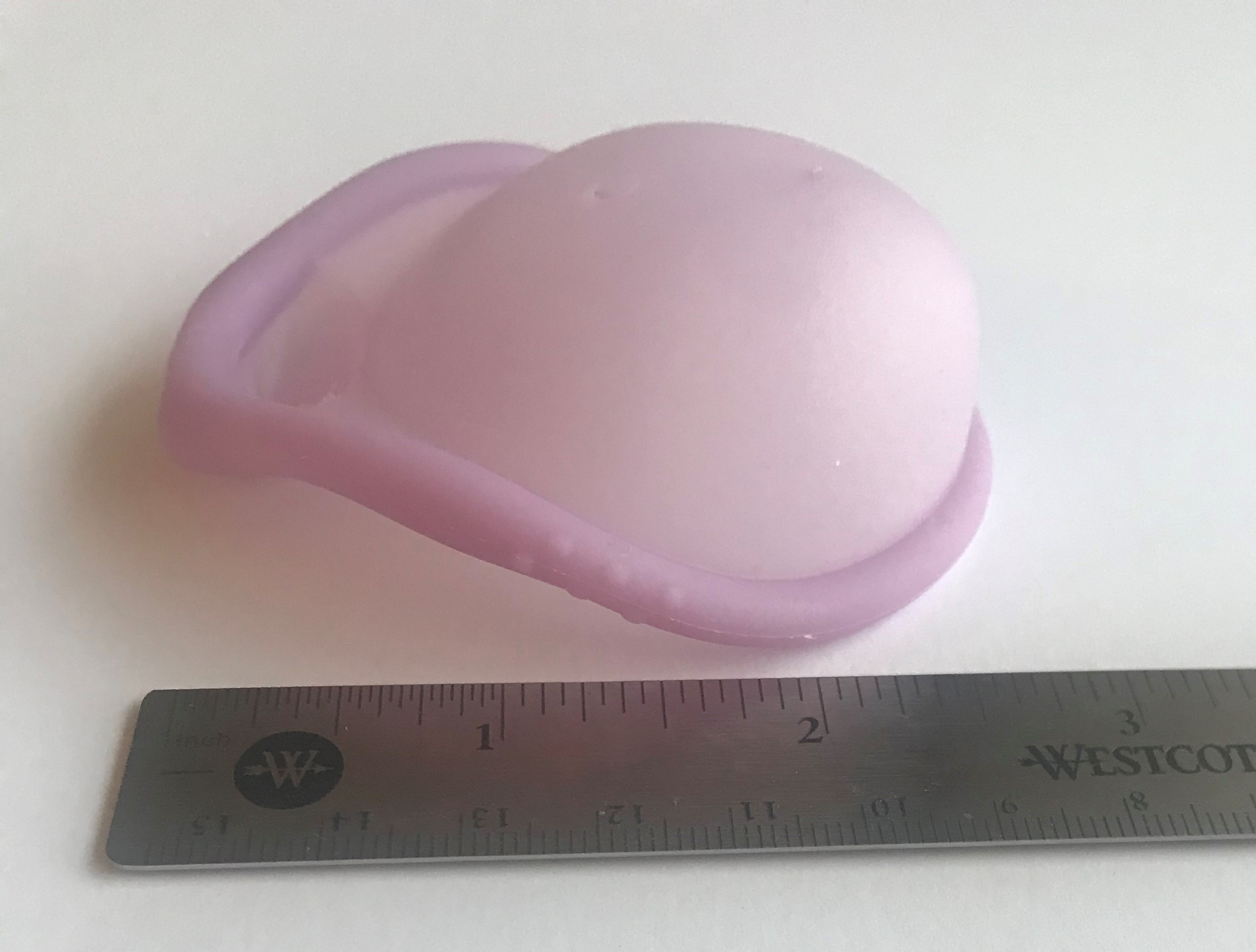 An example of a one-size-fits-most contraceptive diaphragm.